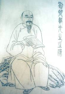 Liu Xizai, scholar of the Qing Dynasty.